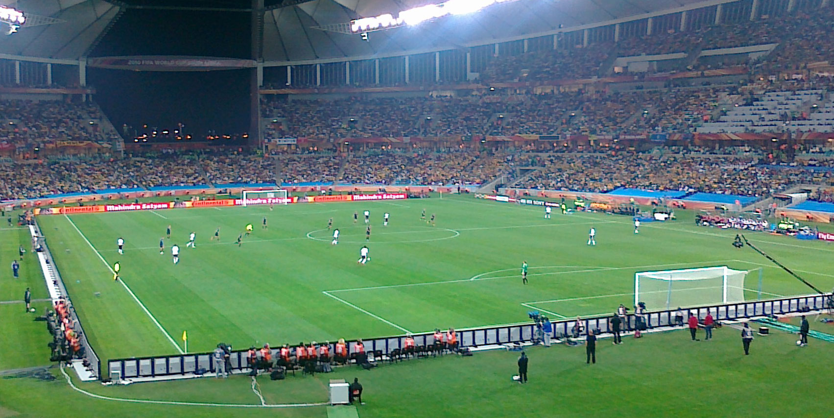 Teams during the game between Germany and Australia at FIFA World Cup 2010, 13 June 2010, Moses Mabhida Stadium, Durban